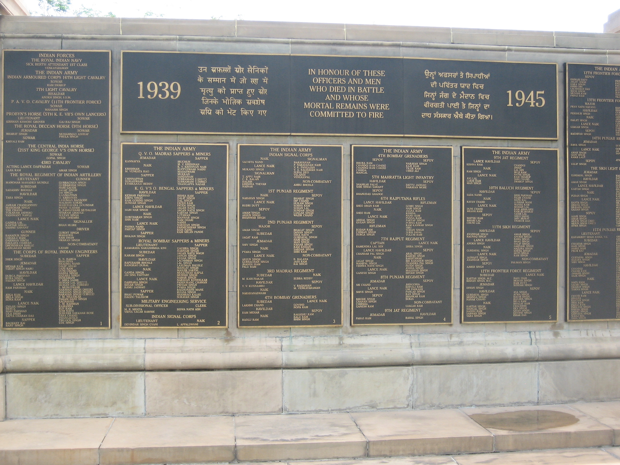 Plaque honoring the allied soldiers buried at Taukkyan (in Hindi, English, and Gurmukhi).